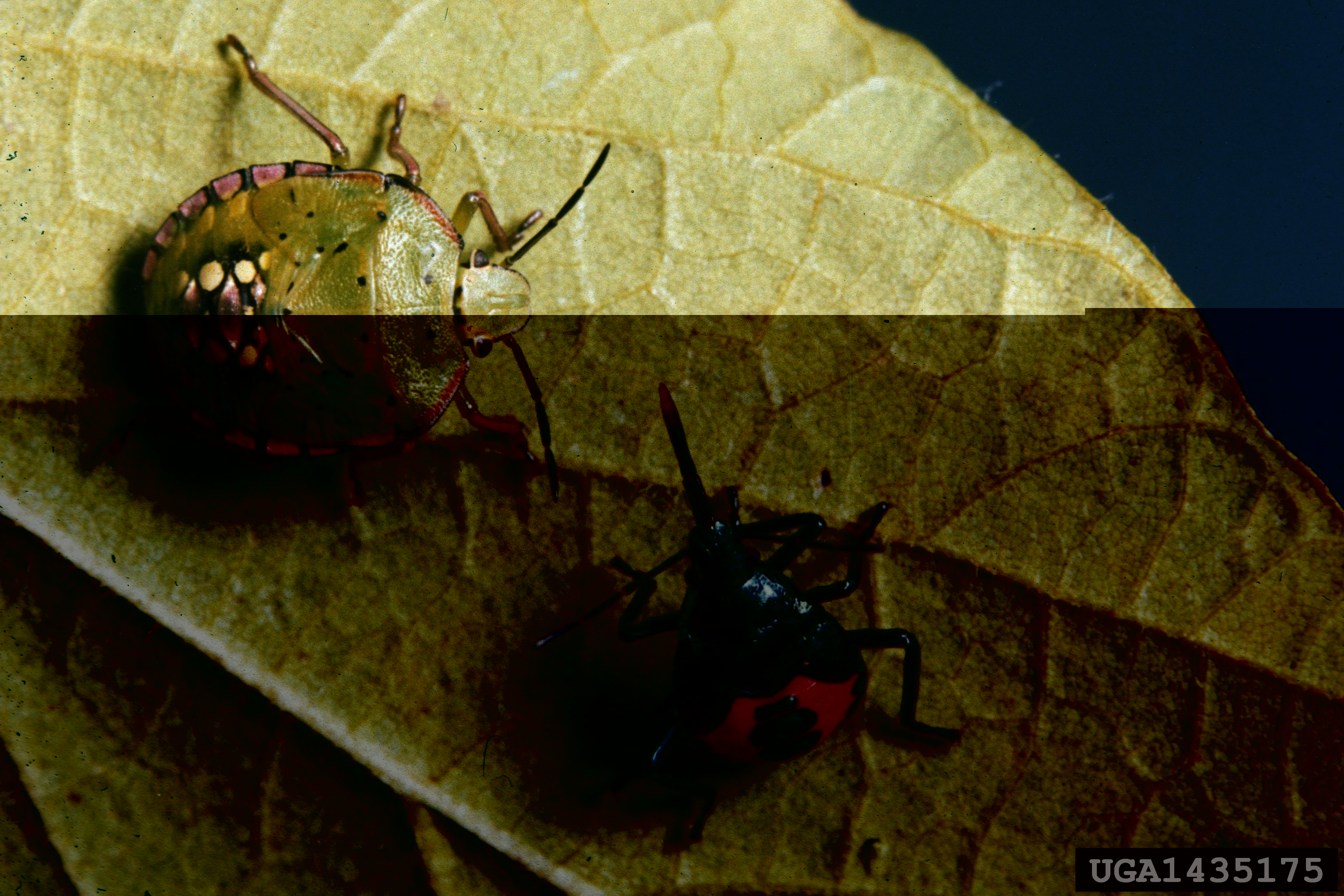 Stiretrus anchorago (nymph) attacking nymph of Southern Green Stink Bug (Nezara viridula) ; family Pentatomidae